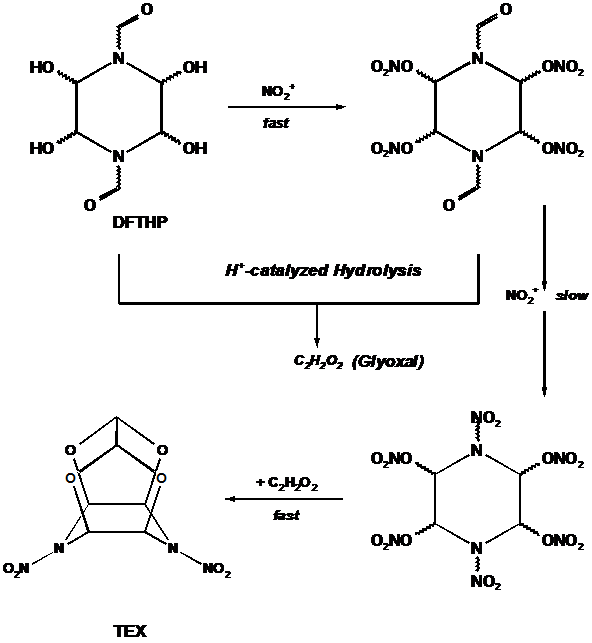 Synthetic steps to TEX from 1,4-Diformyl-2,3,5,6-tetrahydroxypiperazine (DFTHP)